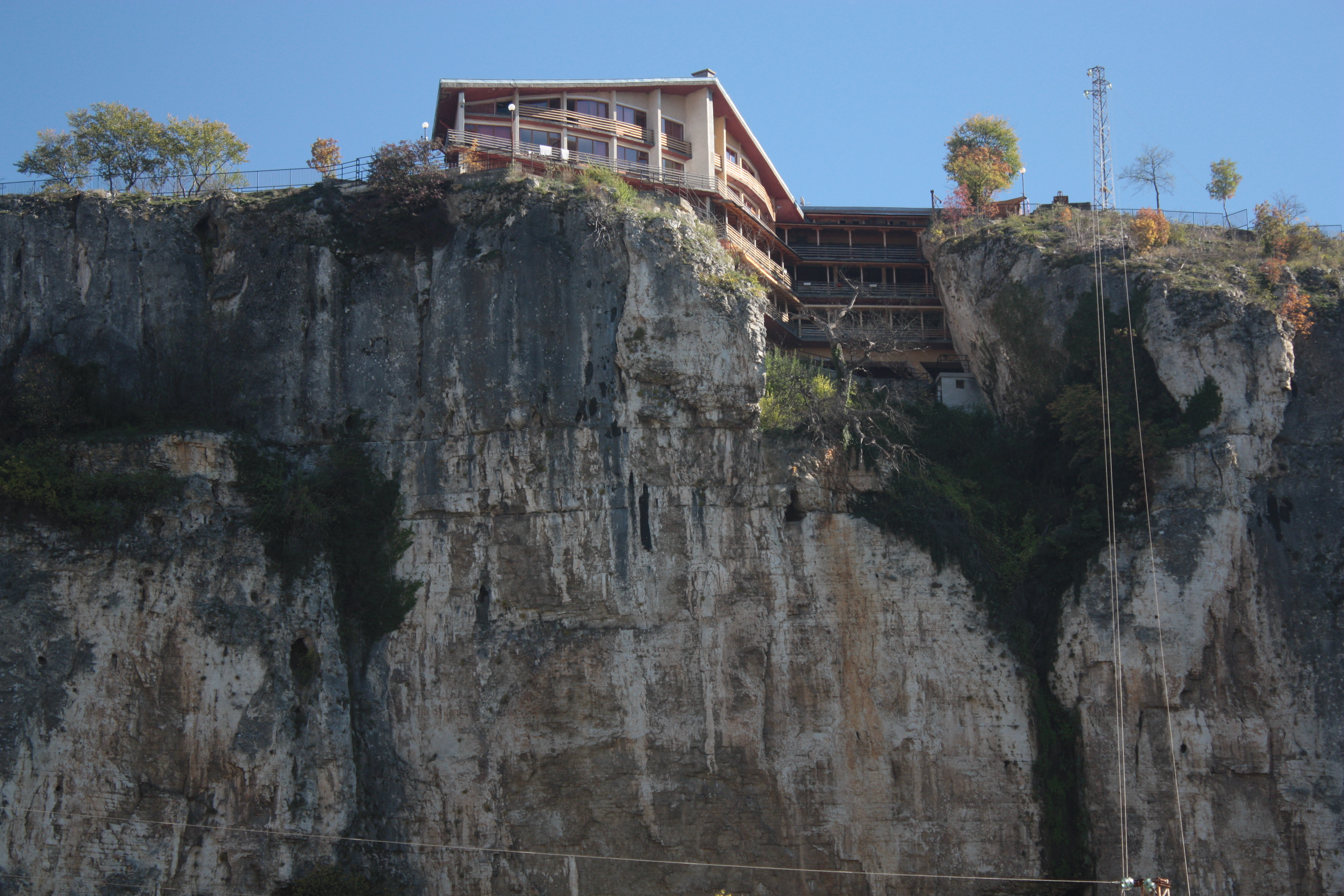 National Spelunkers Home, Karlukovo, Bulgaria